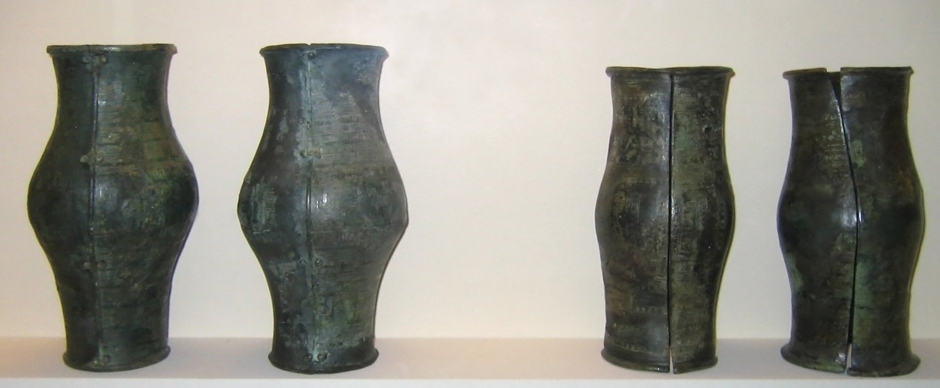 Braceletts found in a grave of the Hallstatt culture.